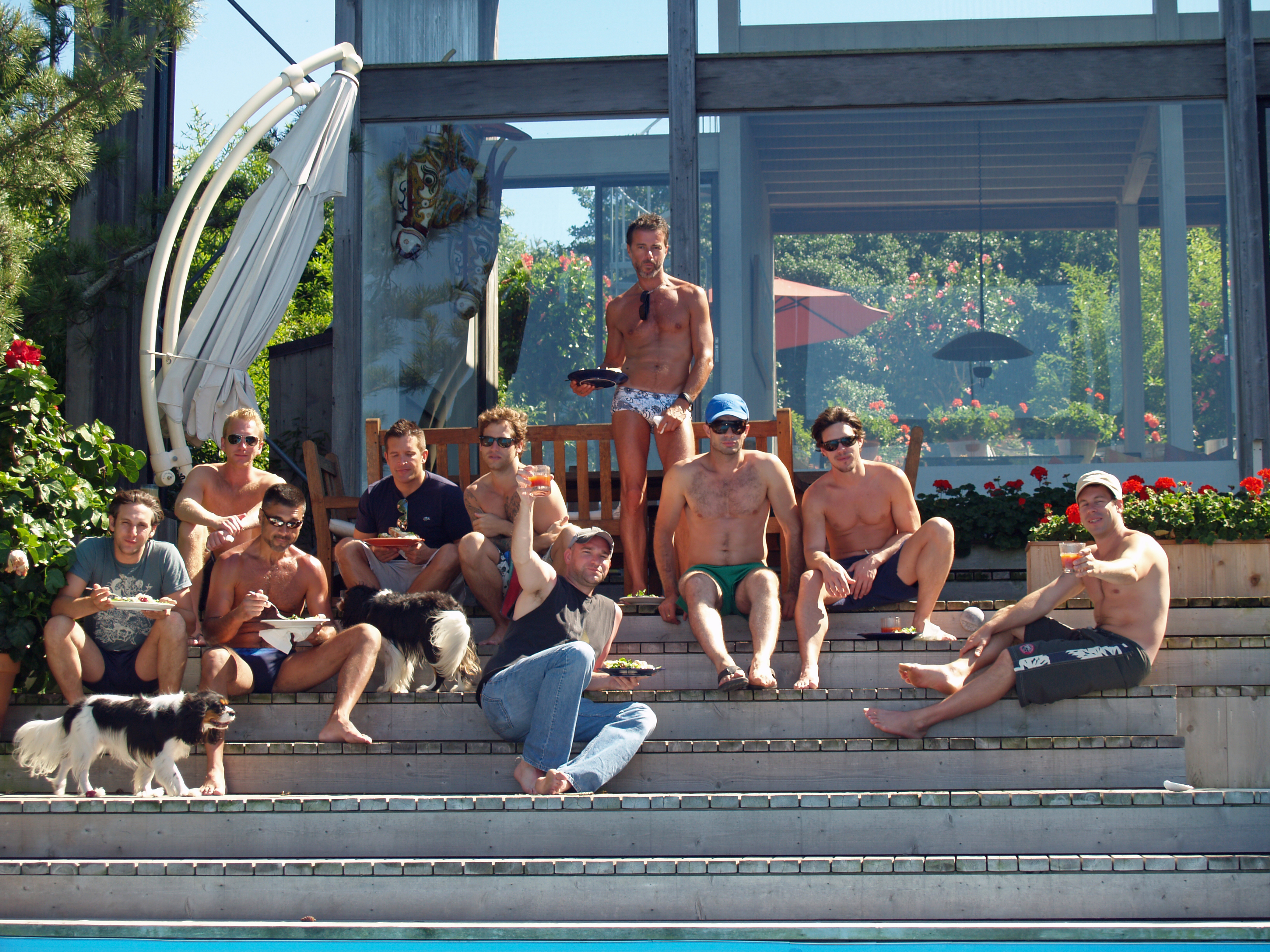 Journalist Jason Bellini, David Grant, Israeli diplomat David Saranga, bloggers Andy Towle and Bradford Shellhammer, photographer David Shankbone, Matthew Williamson executive Jean-Manuel Pourquet, director Michael Lucas, and actors Paul Dawson and P.J. Deboy.